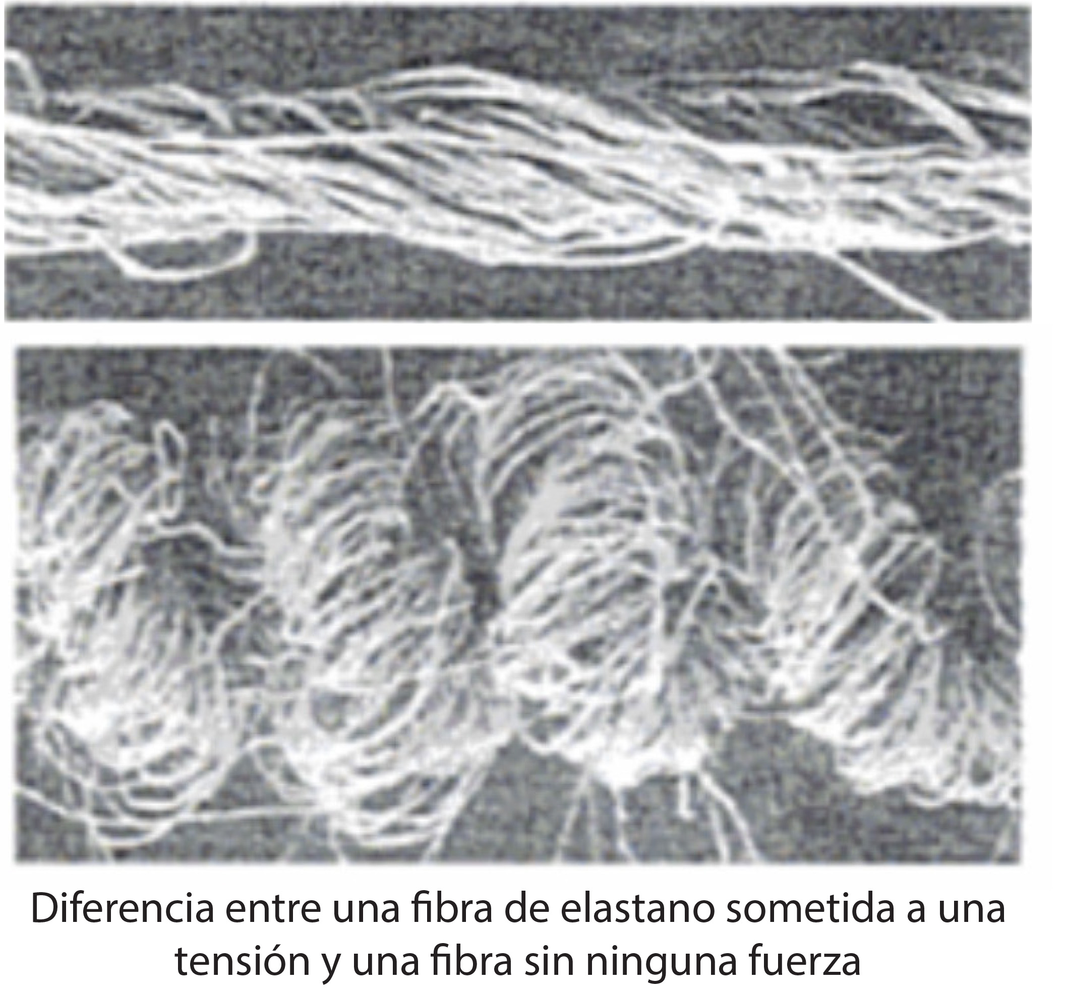 Fibras del elastano